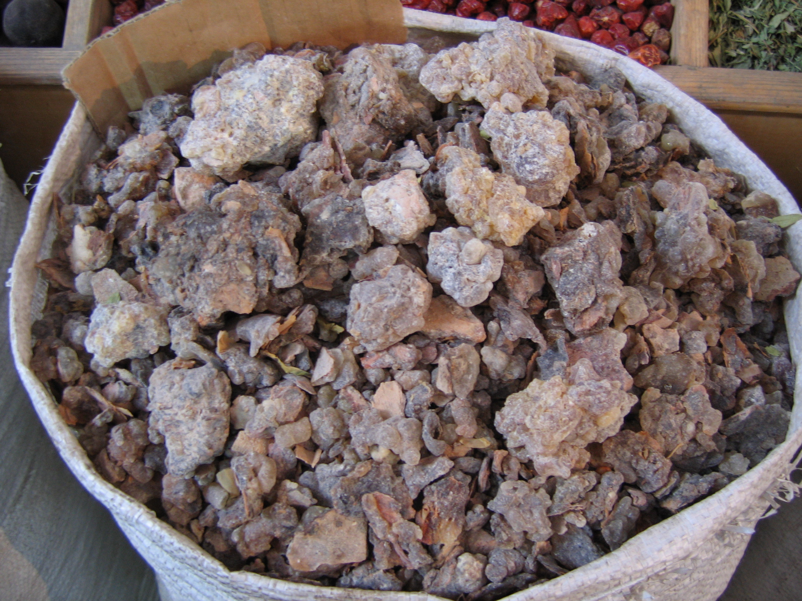 Bag of Frankincense at Spice Souk. Dubai.